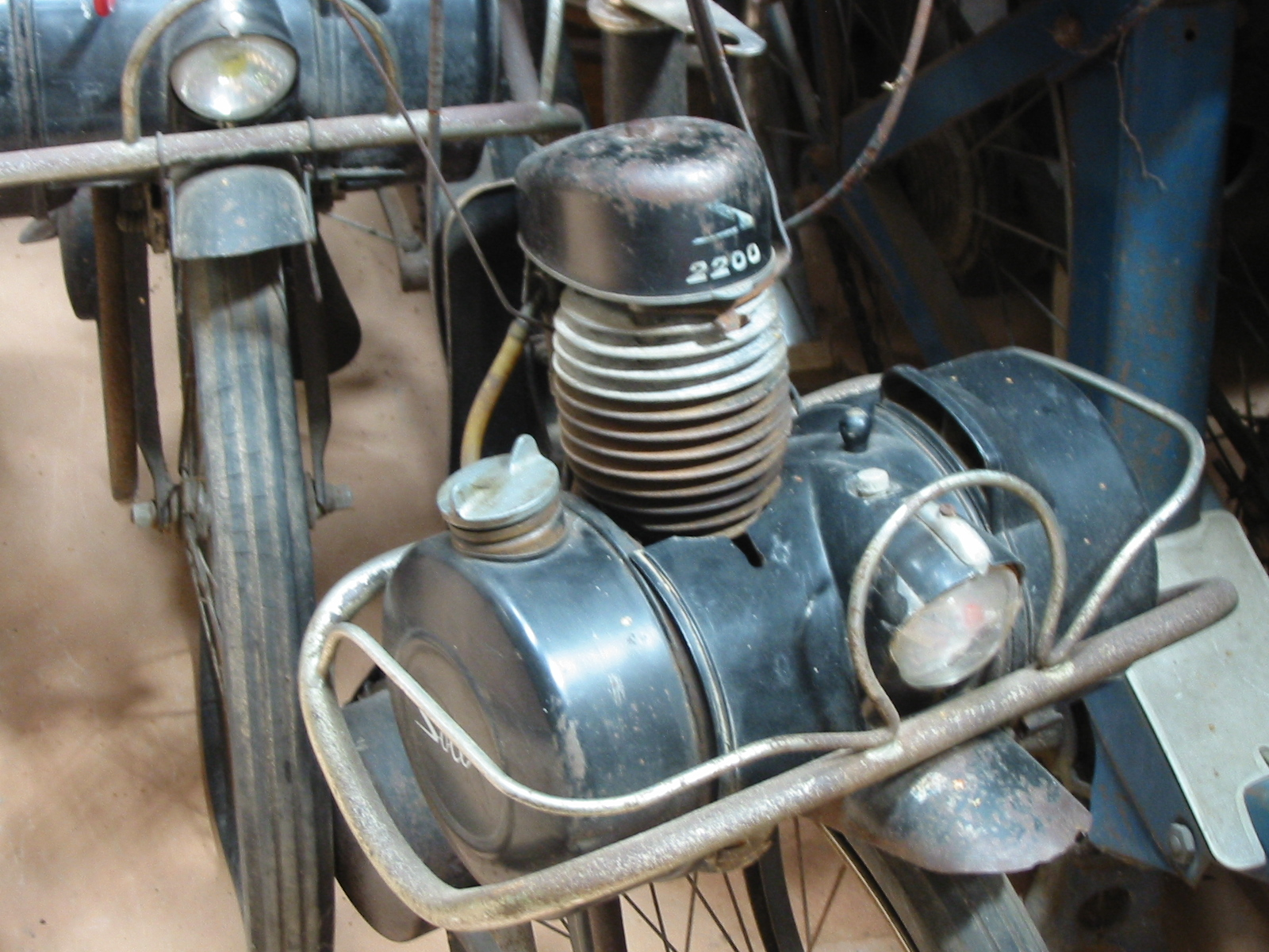 VeloSolex S2200 engine